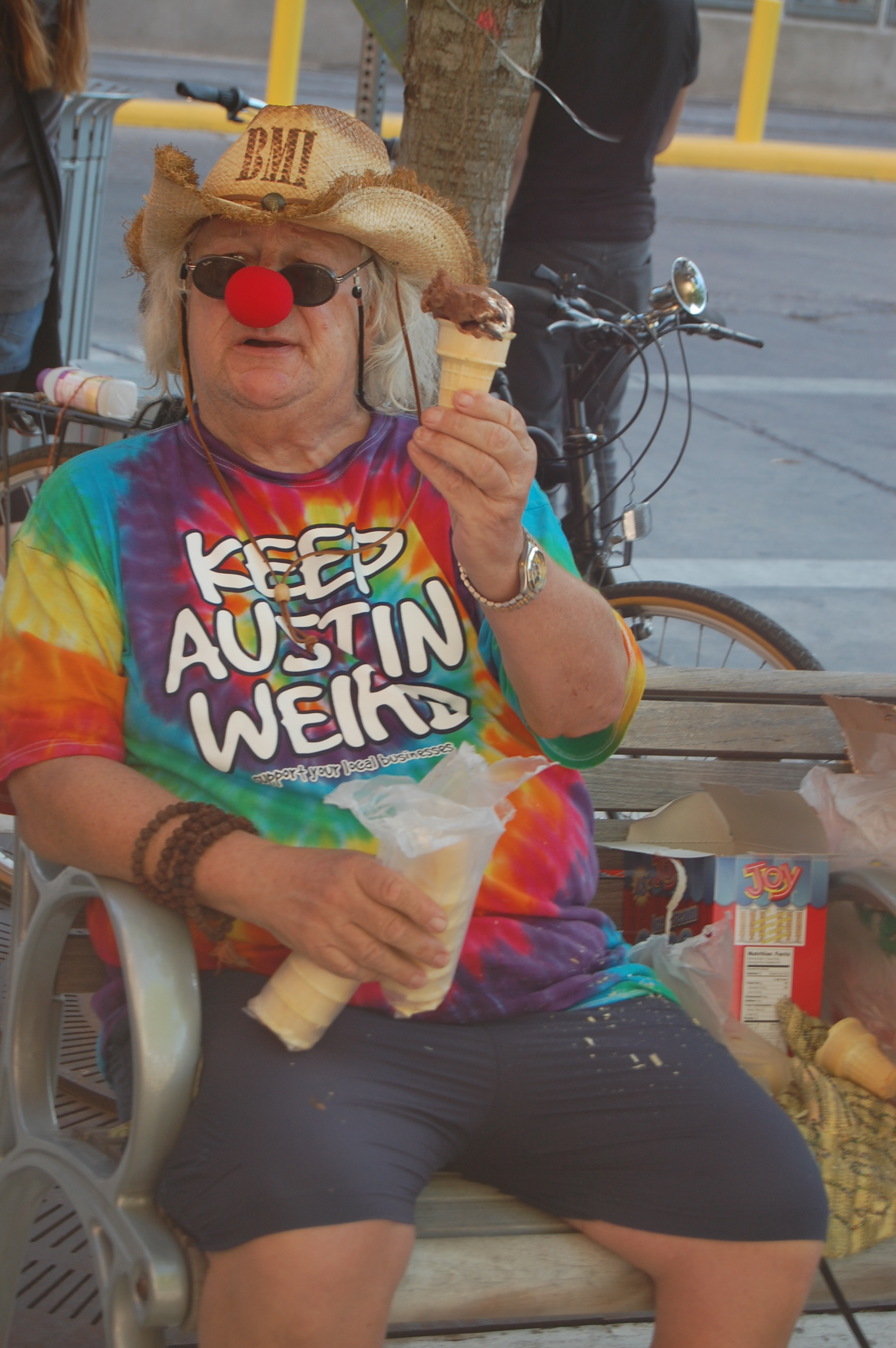 photo by Sarah Vasquez